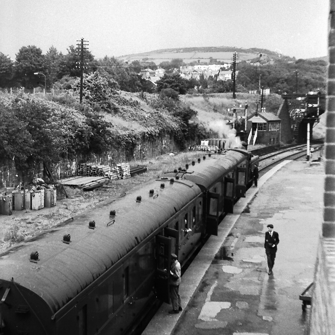 Brecon train prepares for departure from Neath Riverside. The South Wales main line crosses on the overbridge in the distance